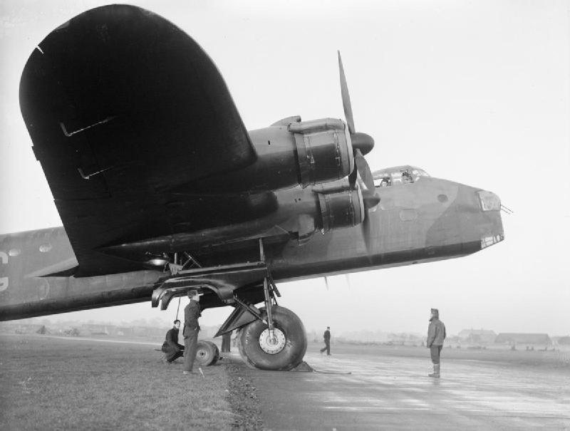 Royal Air Force 1939-1945- Bomber Command This Stirling, N3641/MG-D, seen being prepared for a flight, was the second Stirling to be delivered to No. 7 Squadron at Leeming and took part in their first raid over Rotterdam on the night of 10-11 February 1941.